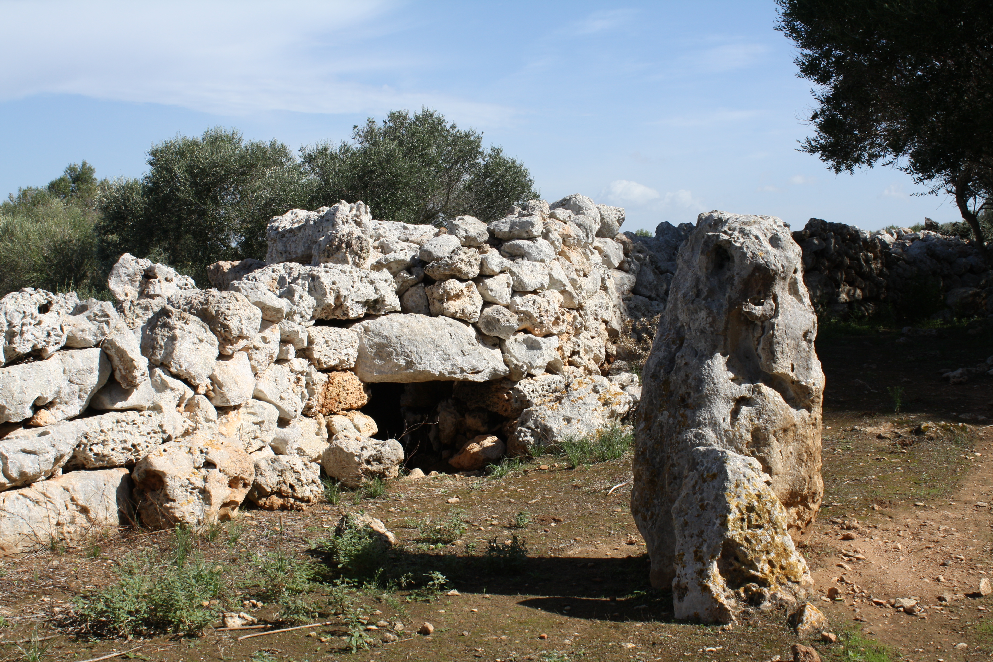 Shelters in the wall of prehistoric village of Son Catlar, Minorca